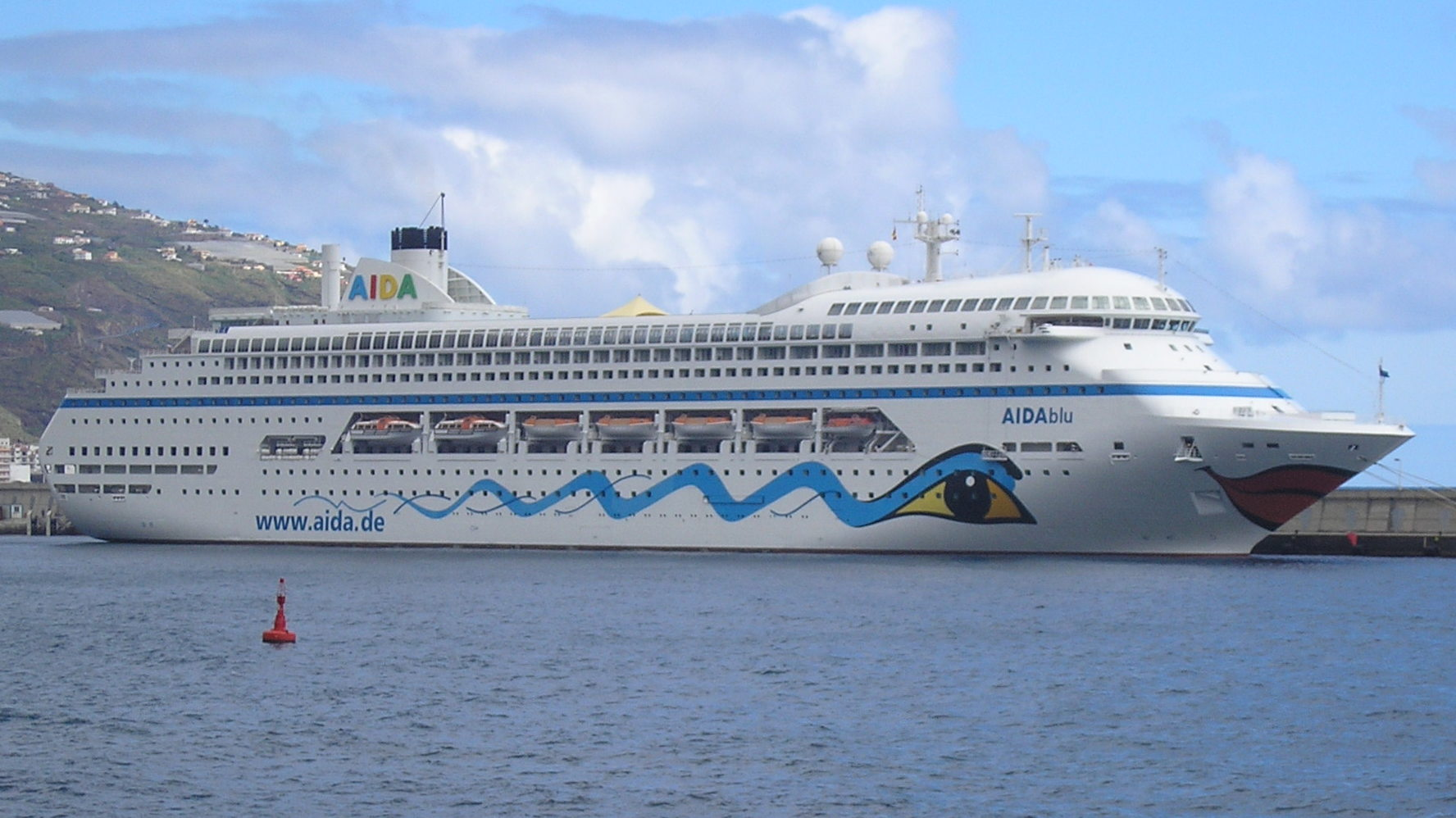 Old AIDAblu (now Pacific Jewel) in the harbor of Santa Cruz (La Palma) photographed by Dietrich Bartel (dieba) on 06.03.2007 / 15:04:06